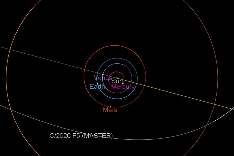 Sun in the middle of the image, the comet at the bottom.